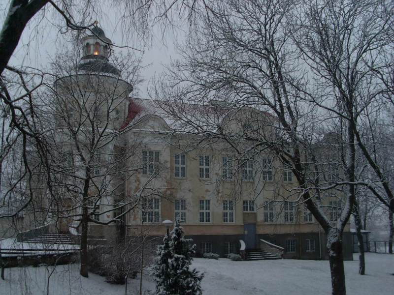 Curia of Telšiai DioceseLietuvių: Telšių vyskupijos kurijaŽemaitėška: Telšiū vīskopėjės kurėjė